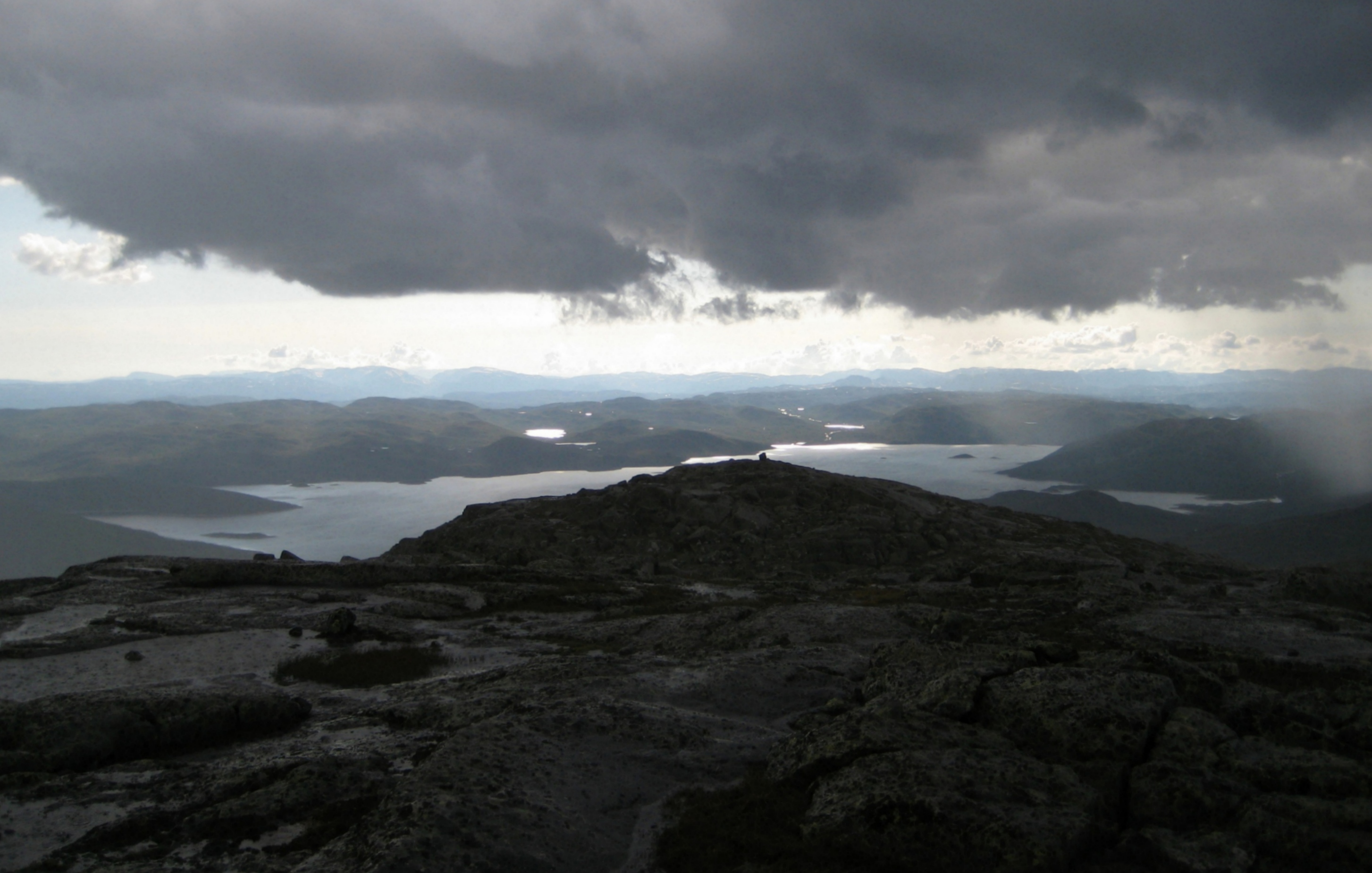 View from just below the summit of Stokkholmen (1600 m) towards Songavatnet